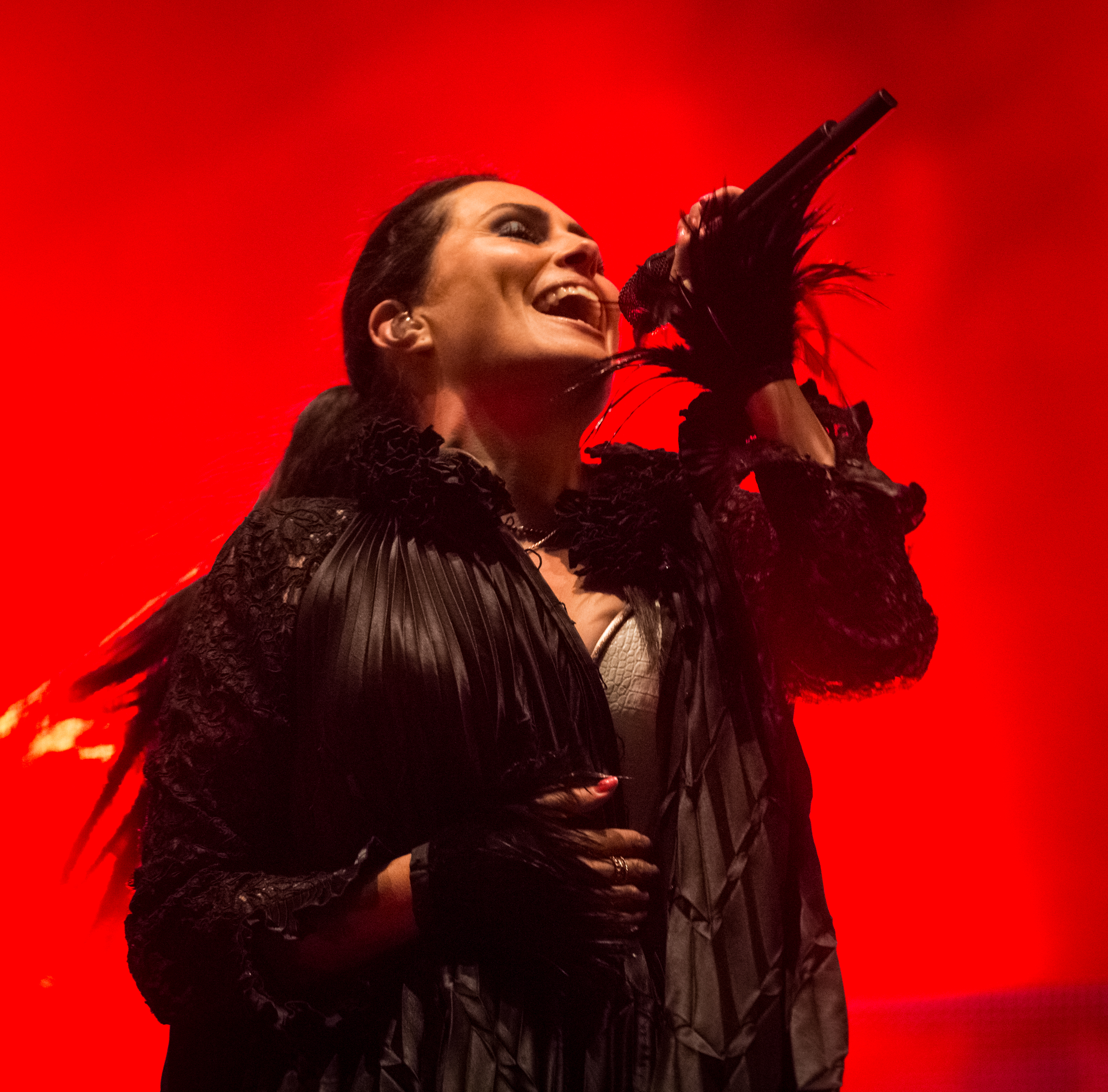 Within Temptation - Wacken Open Air 2015